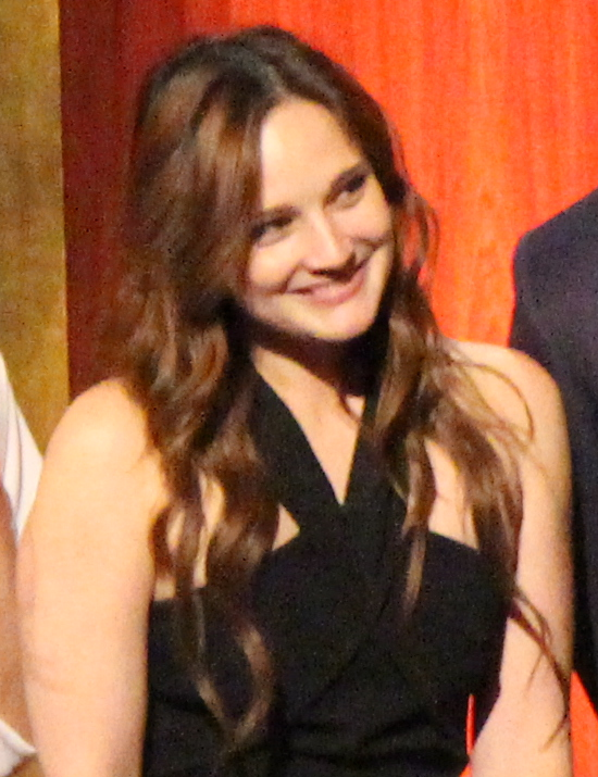 Jo Armeniox at the 2015 Peabody Awards.